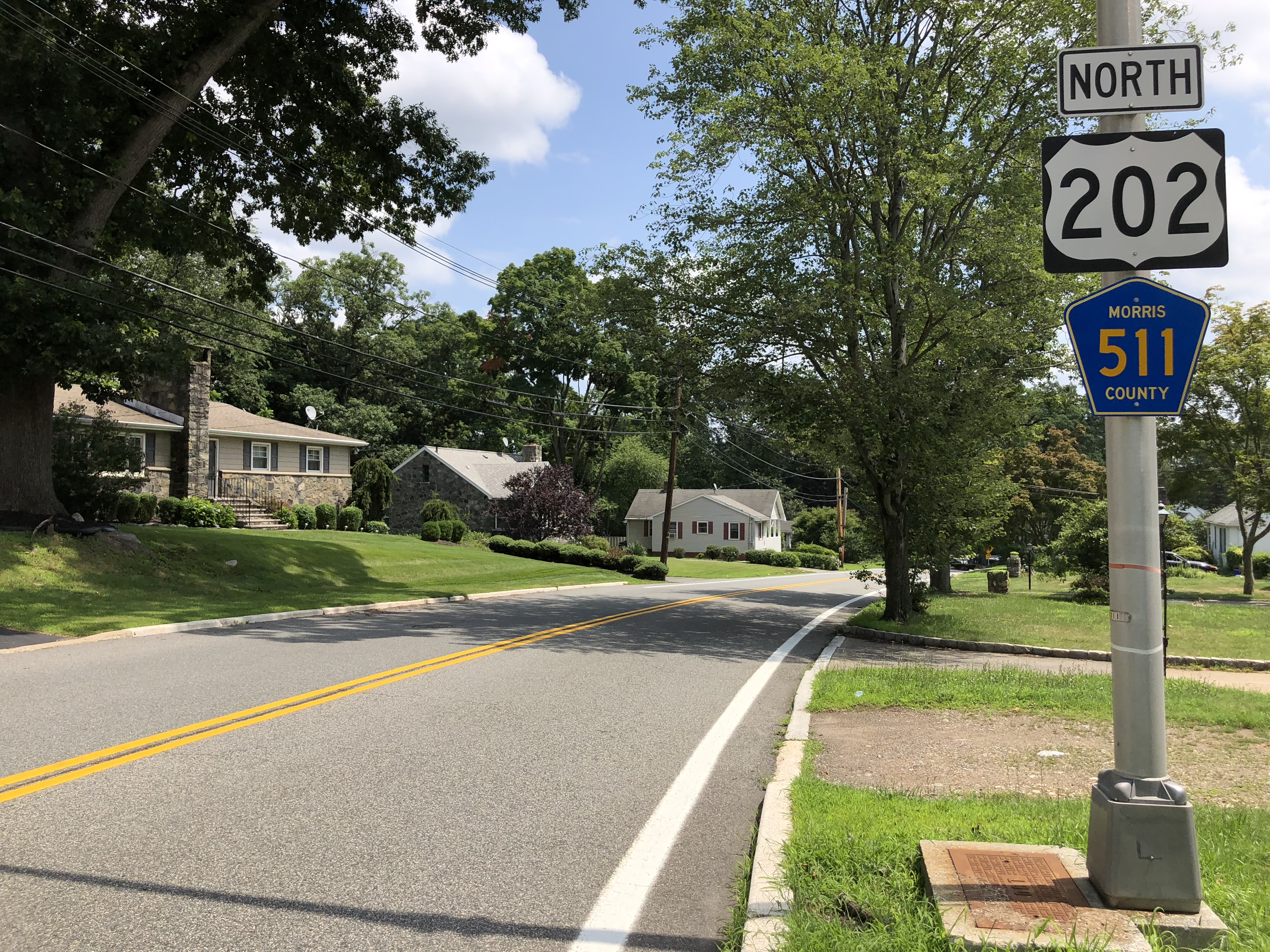 View north along U.S. Route 202 and Morris County Route 511 (Intervale Road) just north of Intervale Road and Fanny Road in Parsippany-Troy Hills Township, Morris County, New Jersey